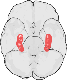 Location of the Hippocampus in the Human Brain The figure shows the underside (ventral view) of a semi-transparent human brain, with the front of the brain at the top. The red blobs show the approximate location of the hippocampus in the temporal lobes of the human brain. Note: the hippocampus is entirely covered by the ventral temporal cortex (i.e., the hippocampus is inside the transparent brain). The figure was generated using MATLAB and Blender. It is based on MRI imaging data from the Wellcome Department of Imaging Neuroscience, UCL and on hippocampal coordinates from the Talairach brain atlas. If you like it, write on my talk page (User_talk:Washington_irving). I may be able to add some other brain regions.